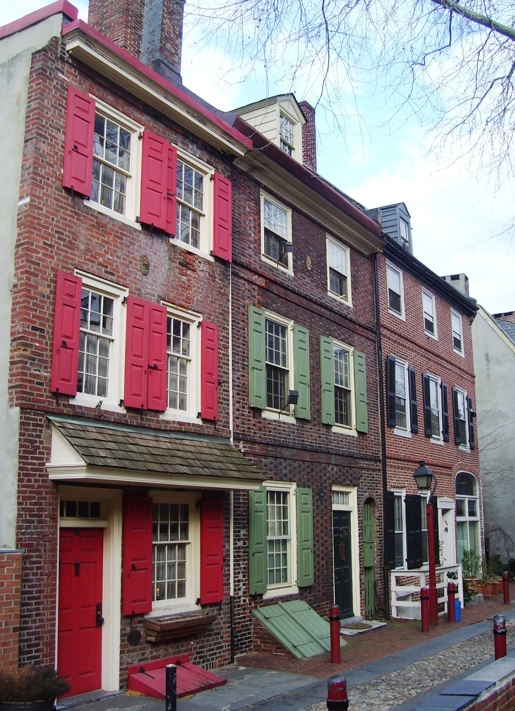 Elfreth's Alley is America's oldest residential street. Founded in 1702, more than 3000 people have lived in the alley, which runs between N. 2nd Street and N. Front Street, in the Old City neigborhood of Philadelphia, Pennsylvania. As of 2012, there are 32 houses on the street, which were built between 1728 and 1836. The Elfreth Alley Museum is located at #124 and 126. (Source: Marker on Elfreth's Alley) This image shows the first three houses on the north side of the alley nearest to 2nd Street.